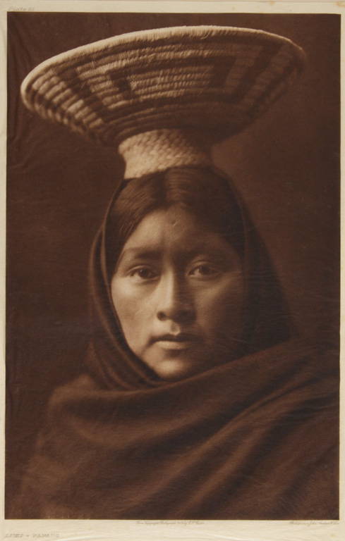 Lúzi - Papago, 1907